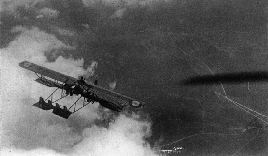 World War I in Reims-Verdon sector, France. A Caudrton G.4 twin-engined reconnaissance aircraft over the front near Reims